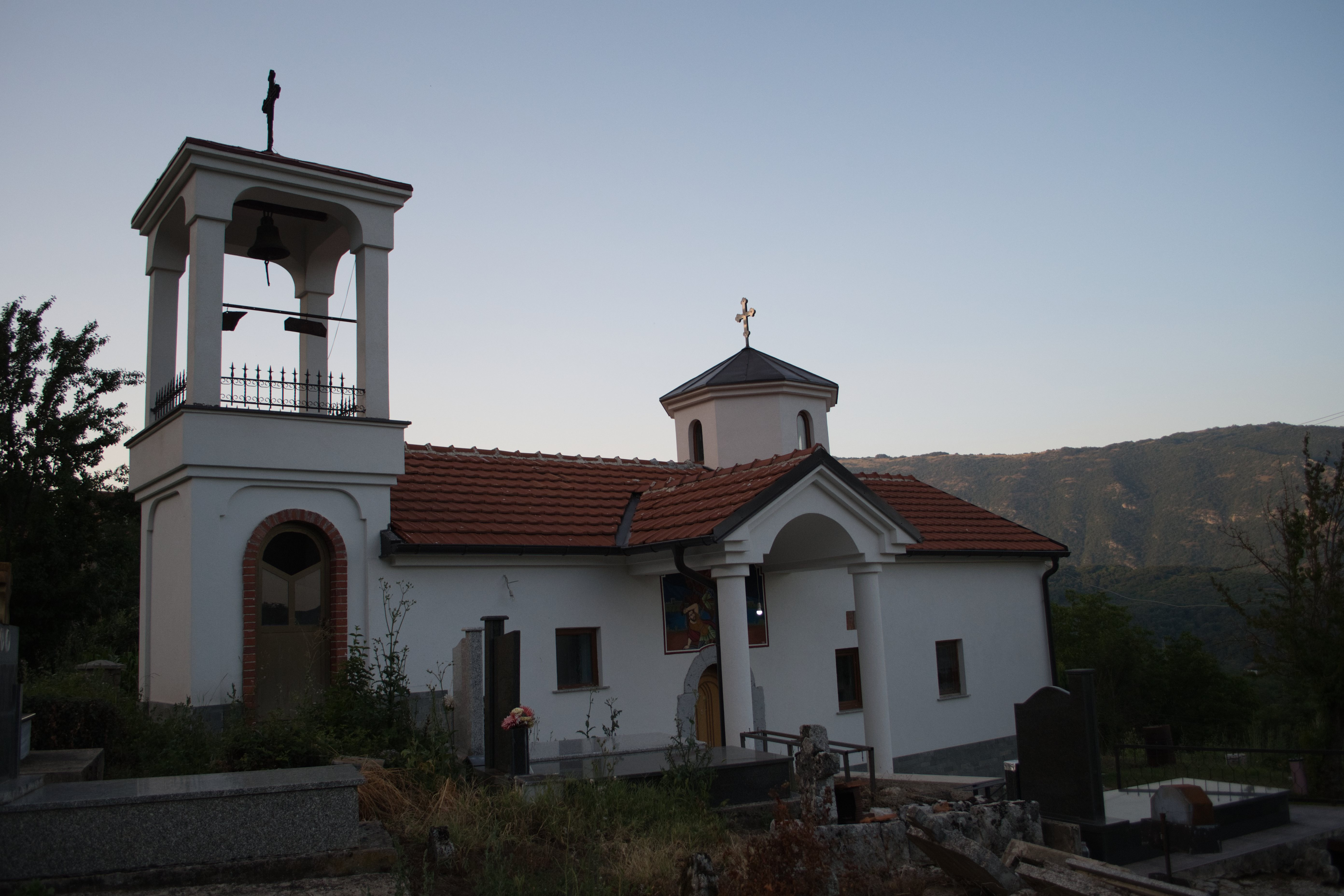 St. Demetrious Church in the village of Bezovo